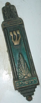 This is a photo of a mezzuzah (מזוזה) which was a missing image requested to go with the article on mezzuzah. The large letter "ש" stands for שדי (Shadai), one of the names of god. In the lower part ירושלים (Jerusalem) is written